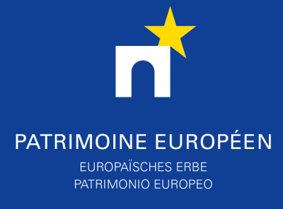 French logo of the European Heritage Label